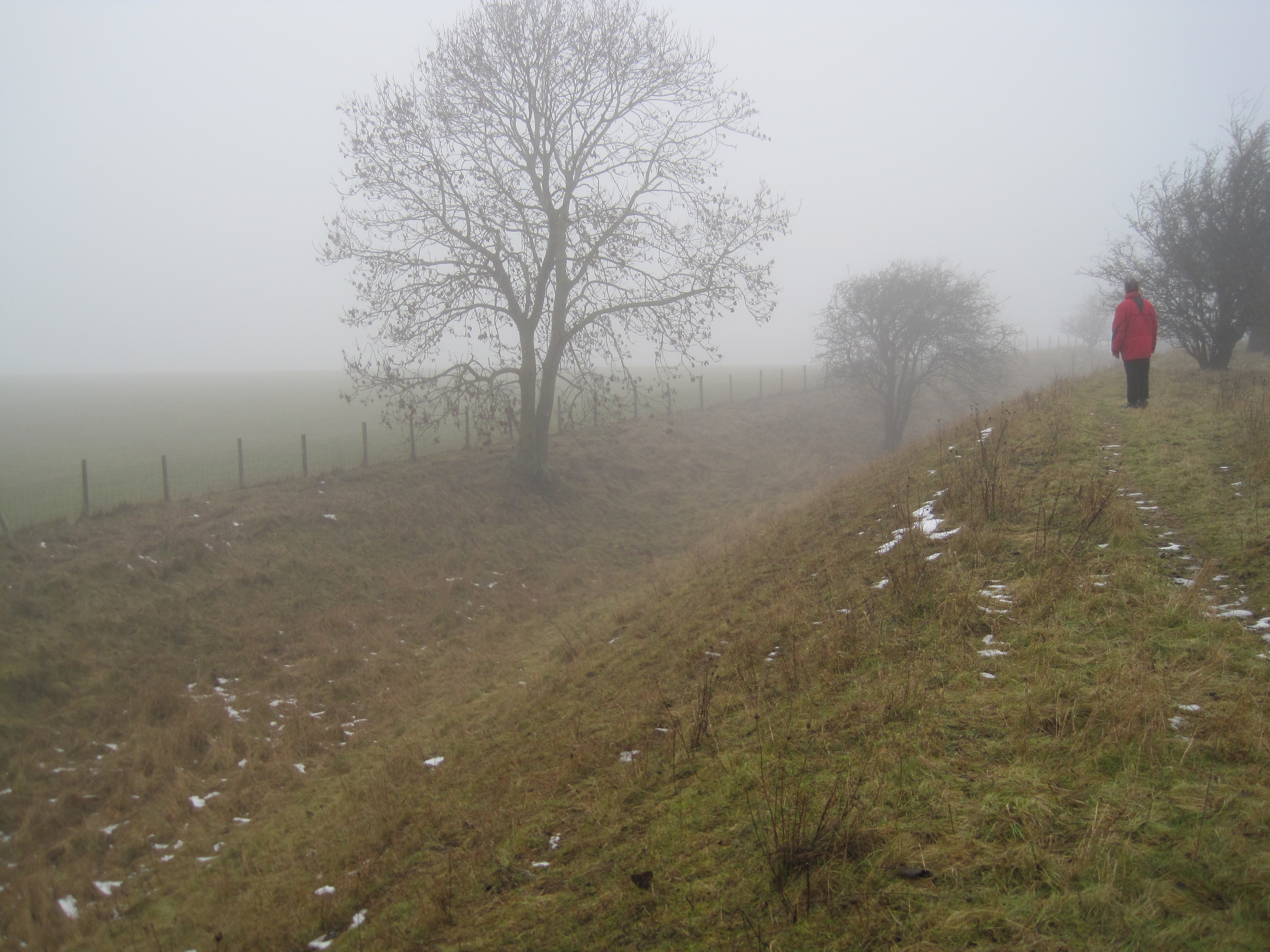 Segsbury Camp, Iron Age fort in Oxfordshire